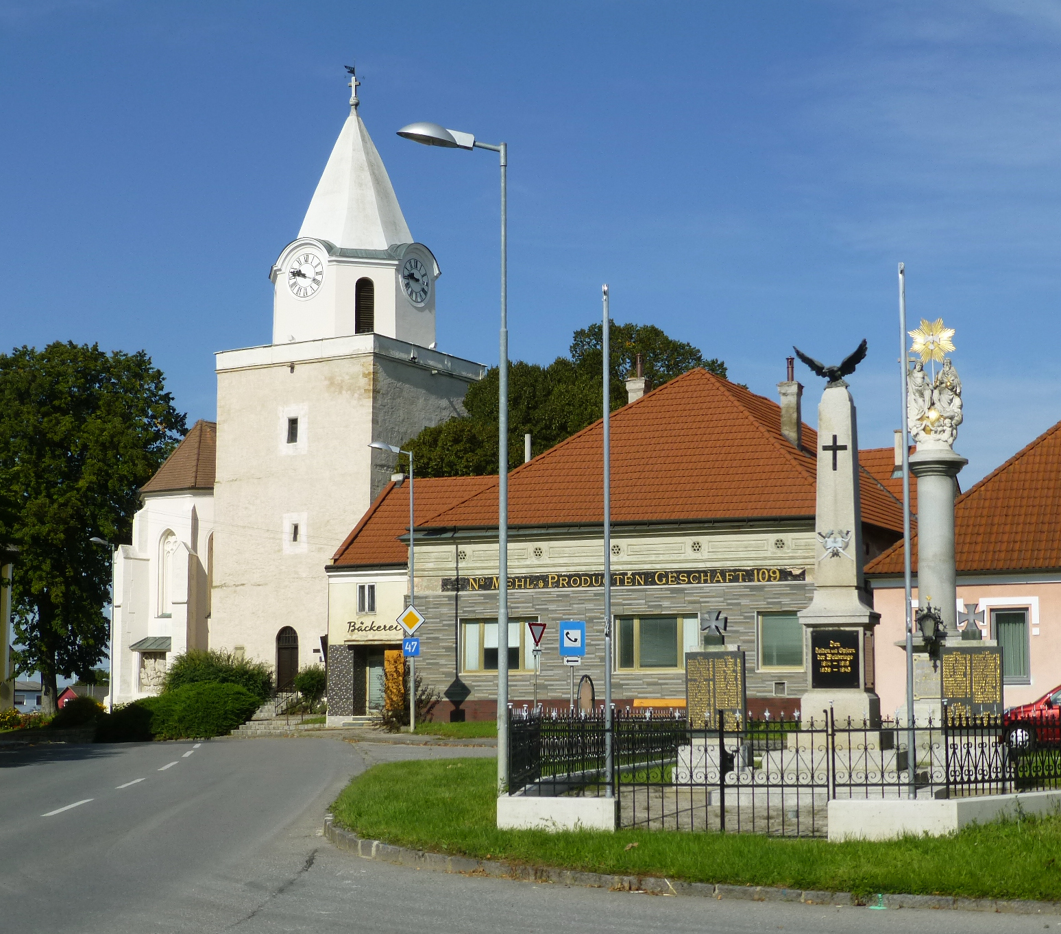 Main place in Großkrut, Lower Austria. Church, War Monument. Trinity column. View from road B47.